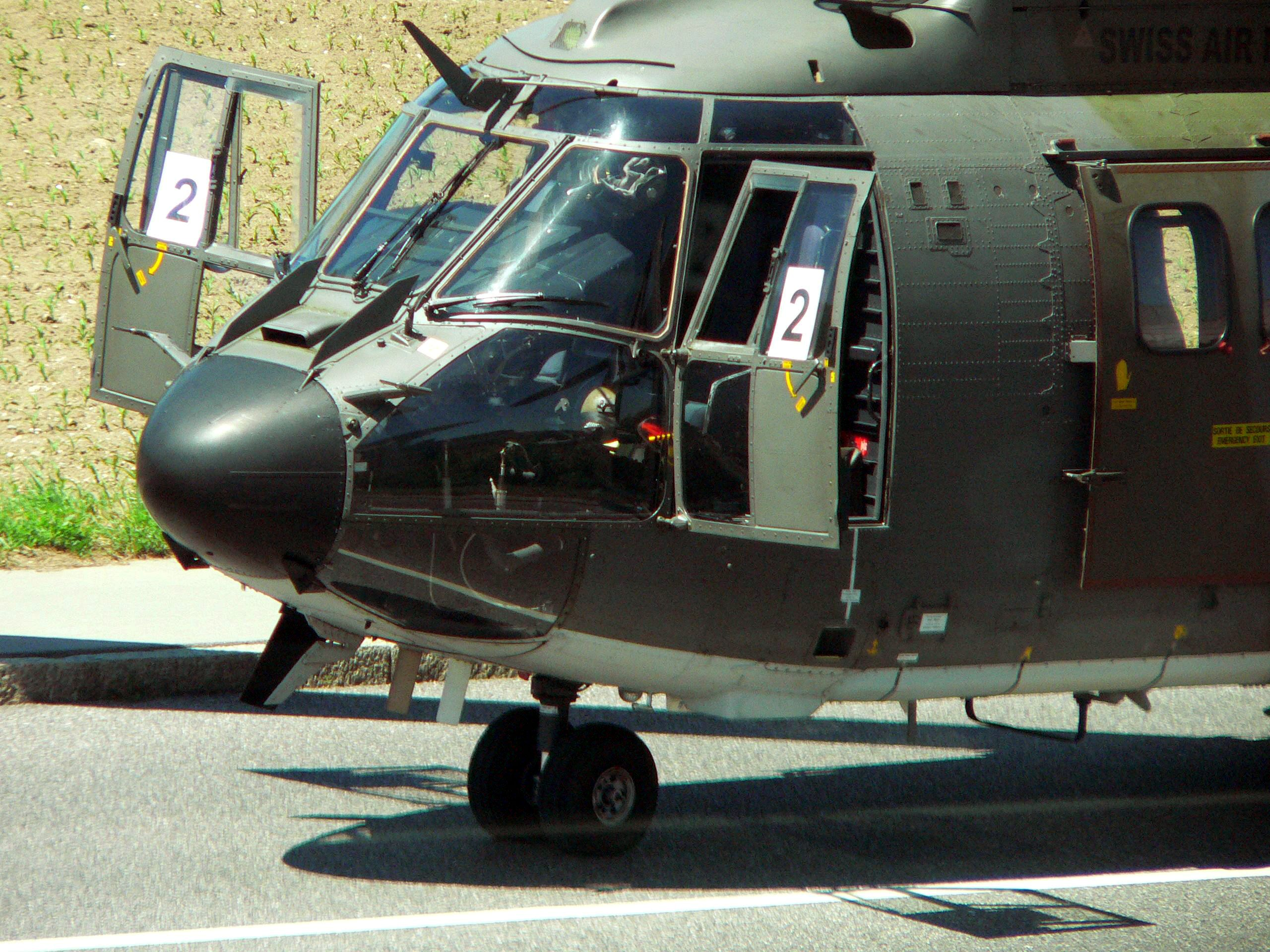 Super Puma helicopter of the Swiss Army at the EPFL during a visit by Avul Pakir Jainulabdeen Abdul Kalam, President of India, 26th of May 2005. Photograph by Rama